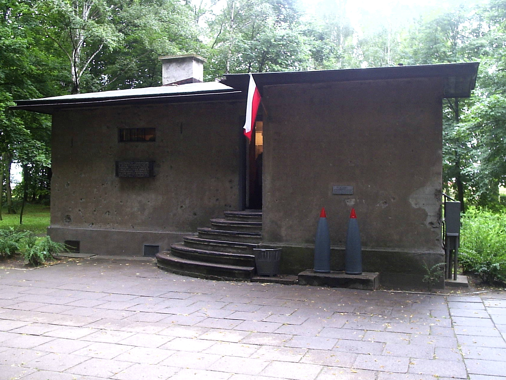 Gdańsk Westerplatte, Poland